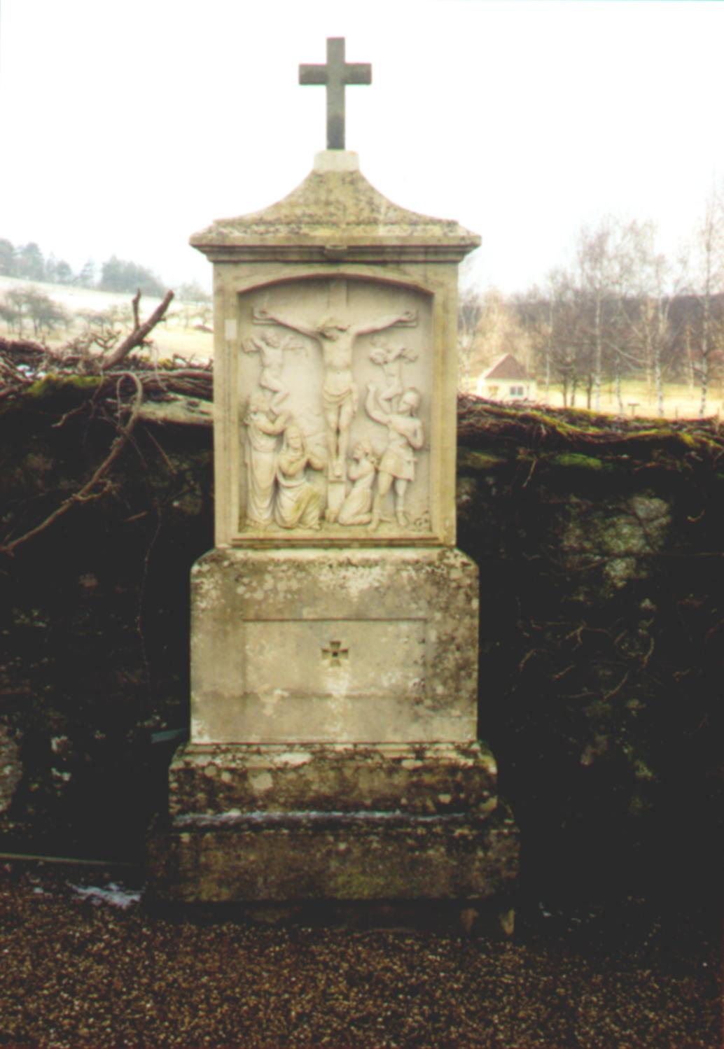 12th Station of the Way of the Cross in Arnshausen, a quarter of the German spa town of Bad Kissingen in Lower Franconia (Bavaria).